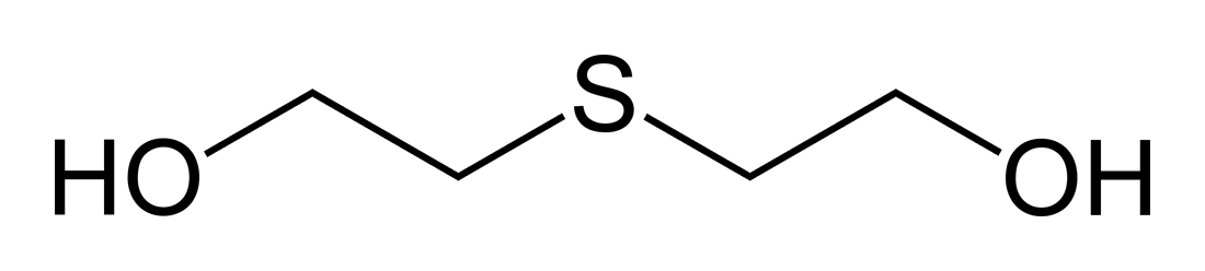 Structure of thiodiglycol